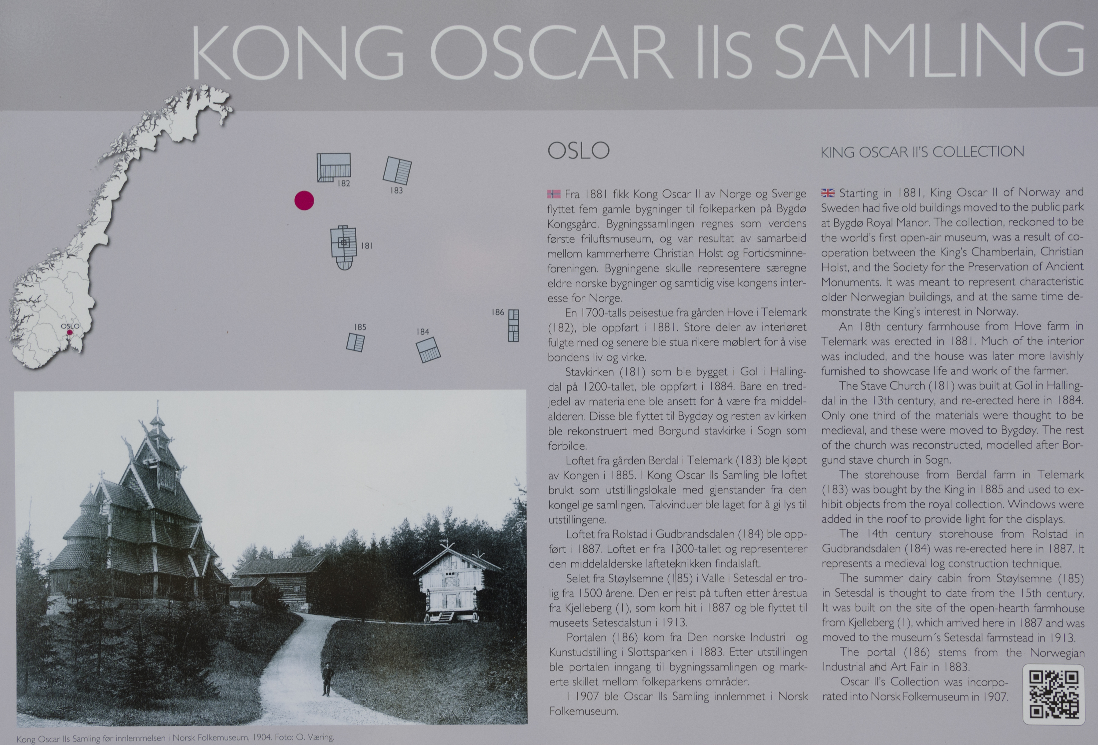 Information board on the collections of king Oscar II; the outdoor exhibit at the Norwegian Museum of Cultural History.